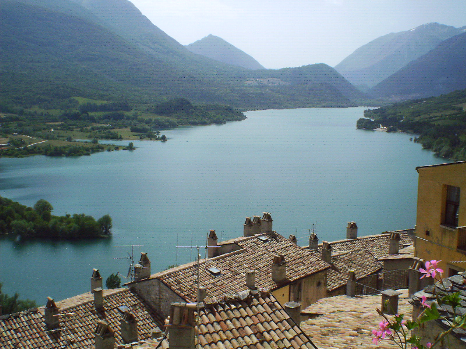 The lake of Barrea in the Abruzzo region of Italy. my art: MarengosLady (Author: Emily DiIulio Love)